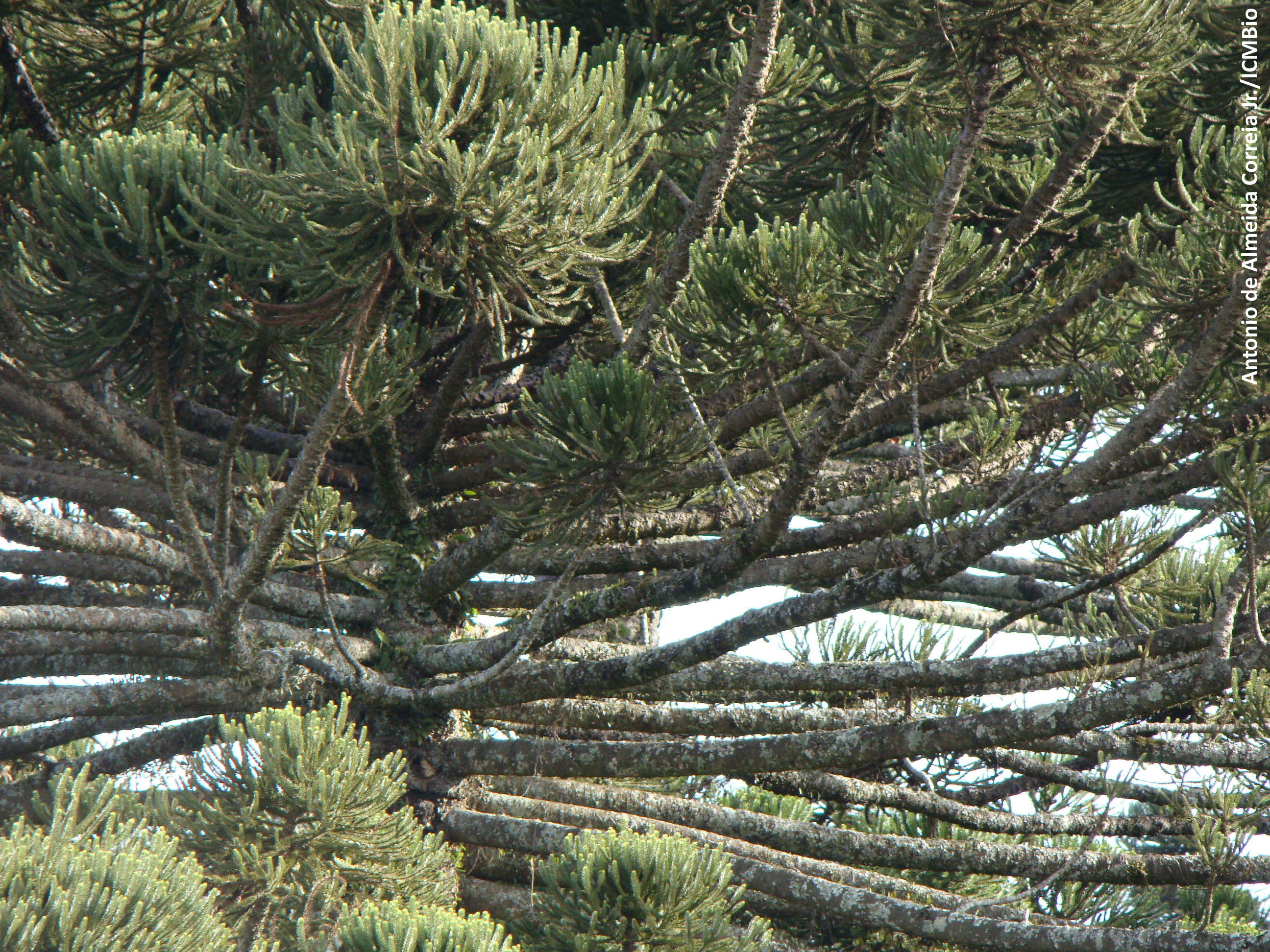 Araucária.